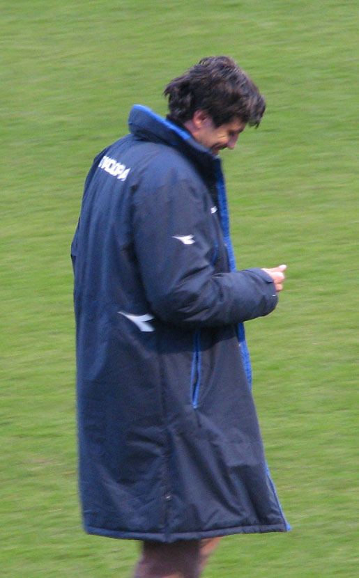 Zoran Mamić